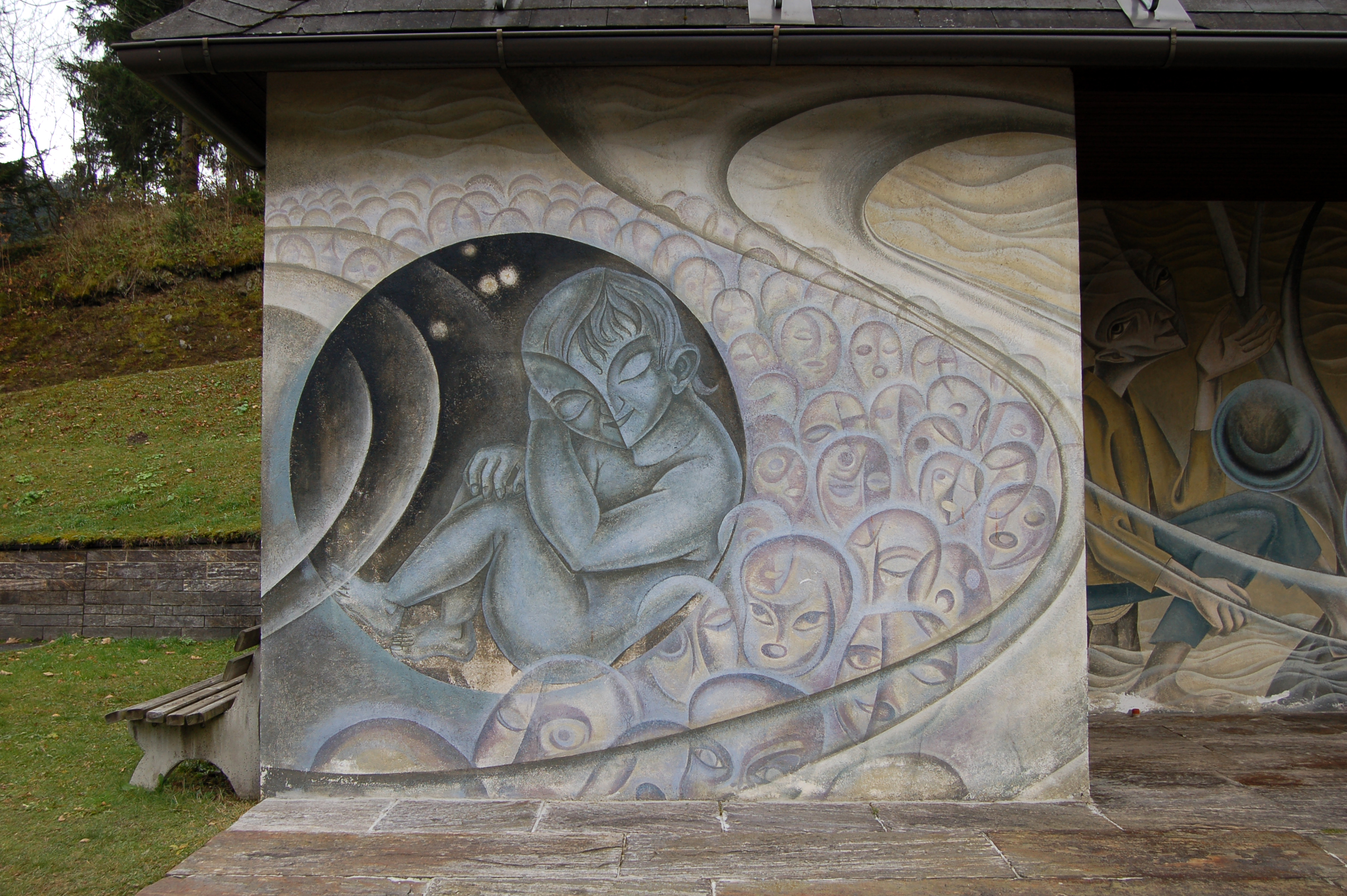 Mortuary Ratten, Styria, Austria. Painting by Franz Drapela, 1973.